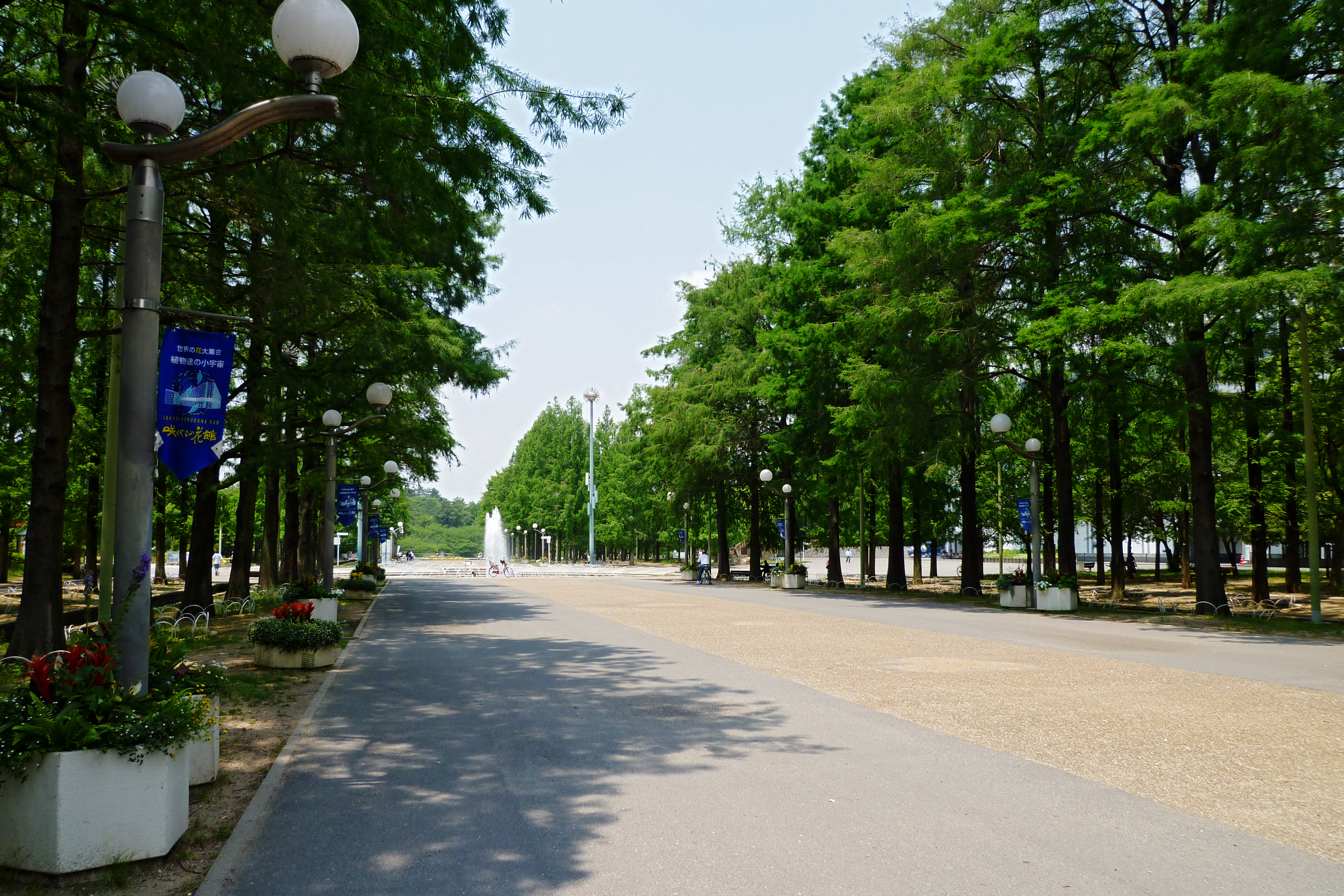 Hanahakukinenkoen Turumiryokuchi, Osaka, Osaka prefecture, Japan.